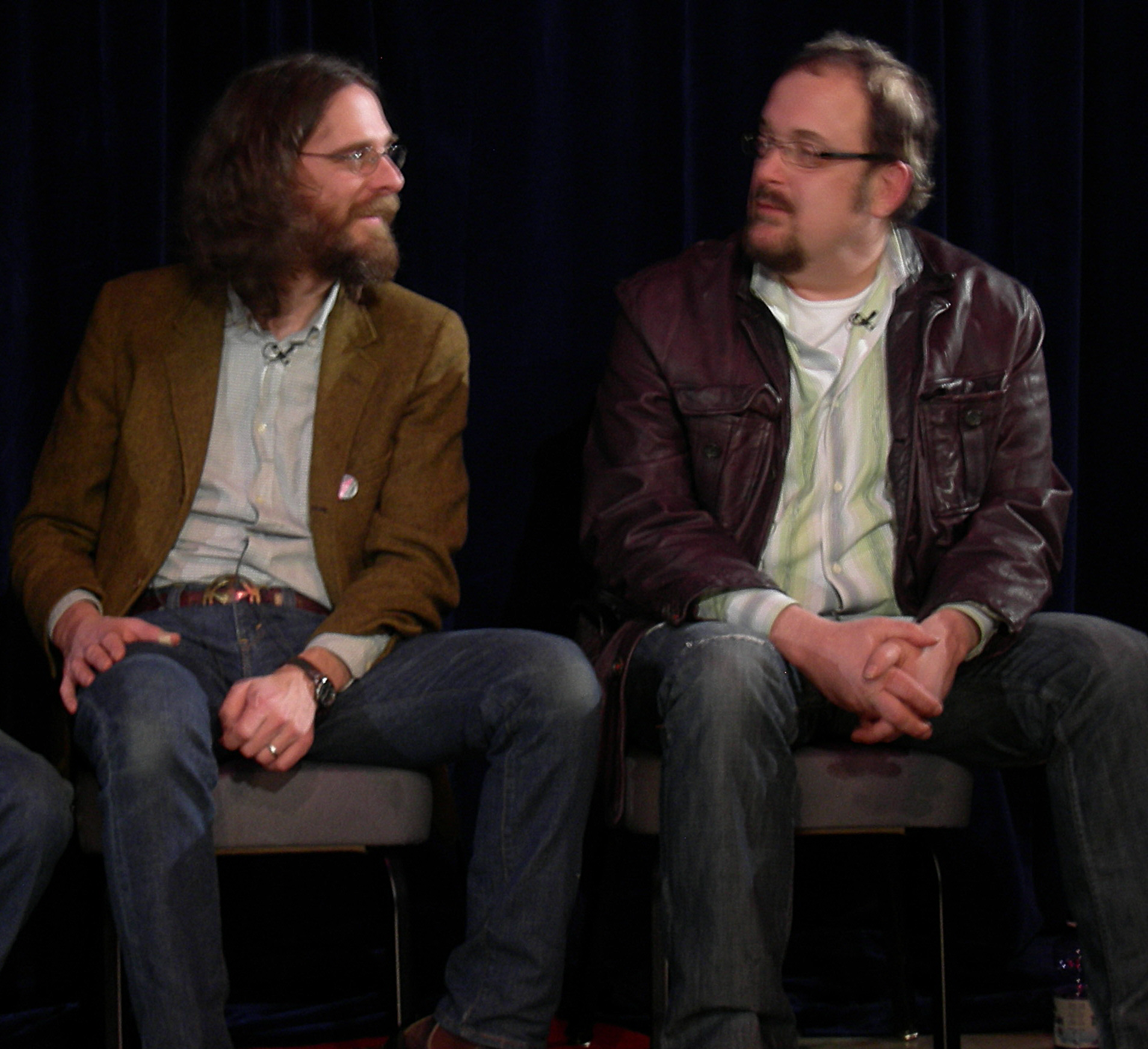 Steve Turner of Mudhoney and Steve Fisk, producer. Snapped at a panel discussion as part of the exhibit "Sound & Vision: Artists Tell Their Stories" at Experience Music Project, Seattle, Washington. Cropped and sharpened.